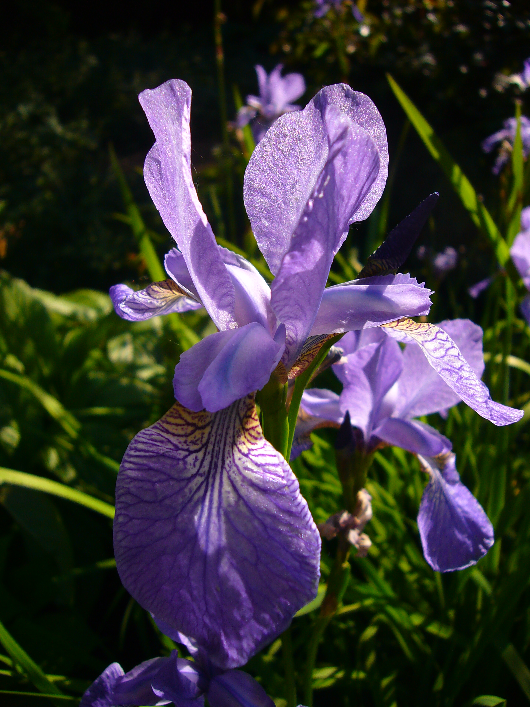 Iris sibirica 'dragonfly' (flower) (photo taken in the Cambridge University Botanic Garden)